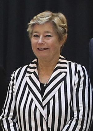 190910-N-IK388-006 NORFOLK (Sept. 10, 2019) Adm. Christopher W. Grady, commander, U.S. Fleet Forces (USFF) Command, left, and Vice Adm. Andrew Lewis, commander, U.S. 2nd Fleet, far right, pose with participants of the Nordic-Baltic-U.S. Forum Deputy Minister of Defense Conference at the USFF headquarters building on Naval Support Activity Hampton Roads. (U.S. Navy photo by Mass Communication Specialist 2nd Class Stacy M. Atkins Ricks/Released)